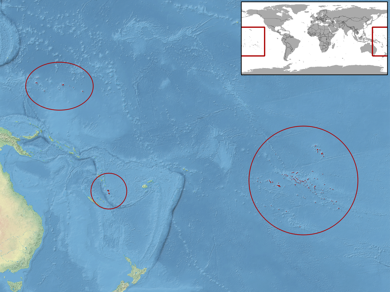 geographic distribution of Nactus pelagicus (Native: American Samoa (American Samoa); Cook Islands; Fiji; French Polynesia; New Caledonia; Niue; Samoa; Tokelau; Tonga; Vanuatu)